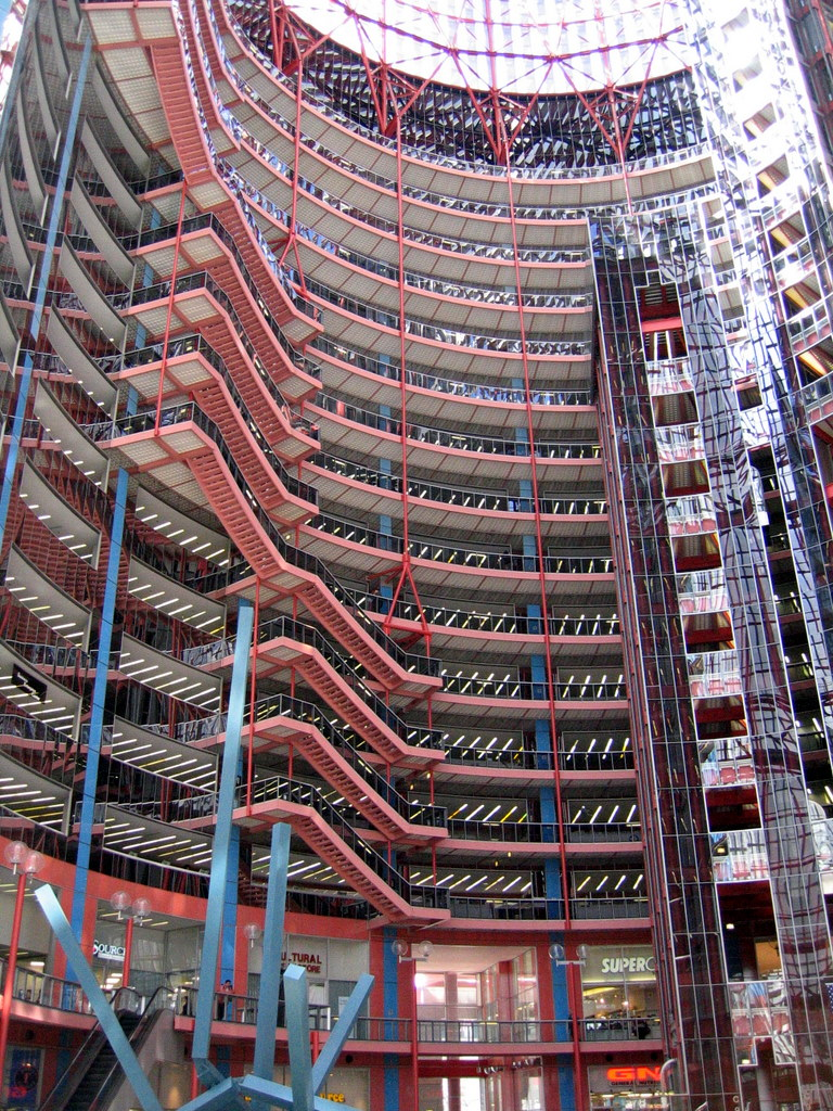 A view of the James R. Thompson Center from the inside.